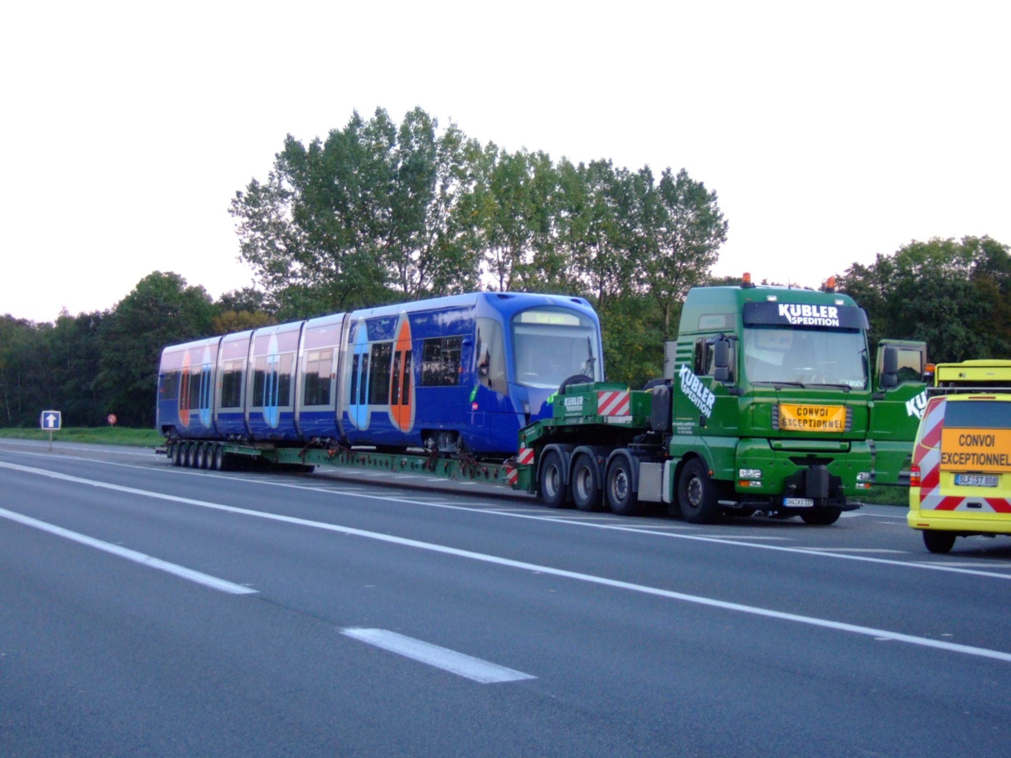 Tram-train U 25500 (Siemens AG constructor, Avento model) for the T4 line of tramway parisien.This photo shows a tram during it delivery trip. Here the truck is stopped on RN4 near Pontault Combault, Seine et Marne, France, awaiting the night to run across the suburb of Paris.